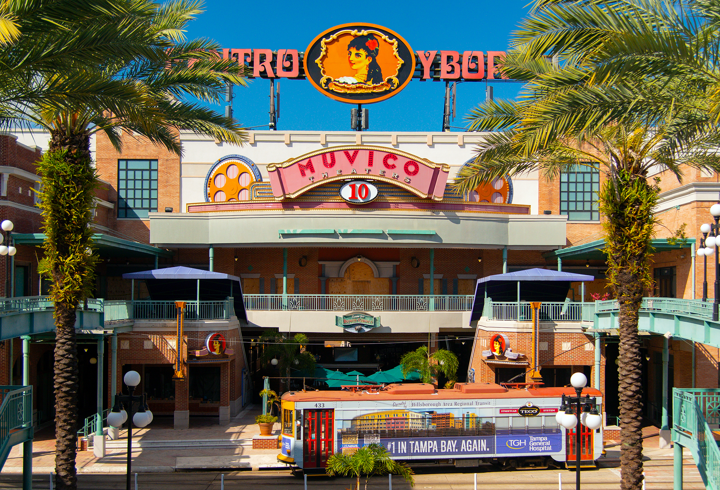 Centro Ybor and streetcar, Ybor City, Tampa, Florida